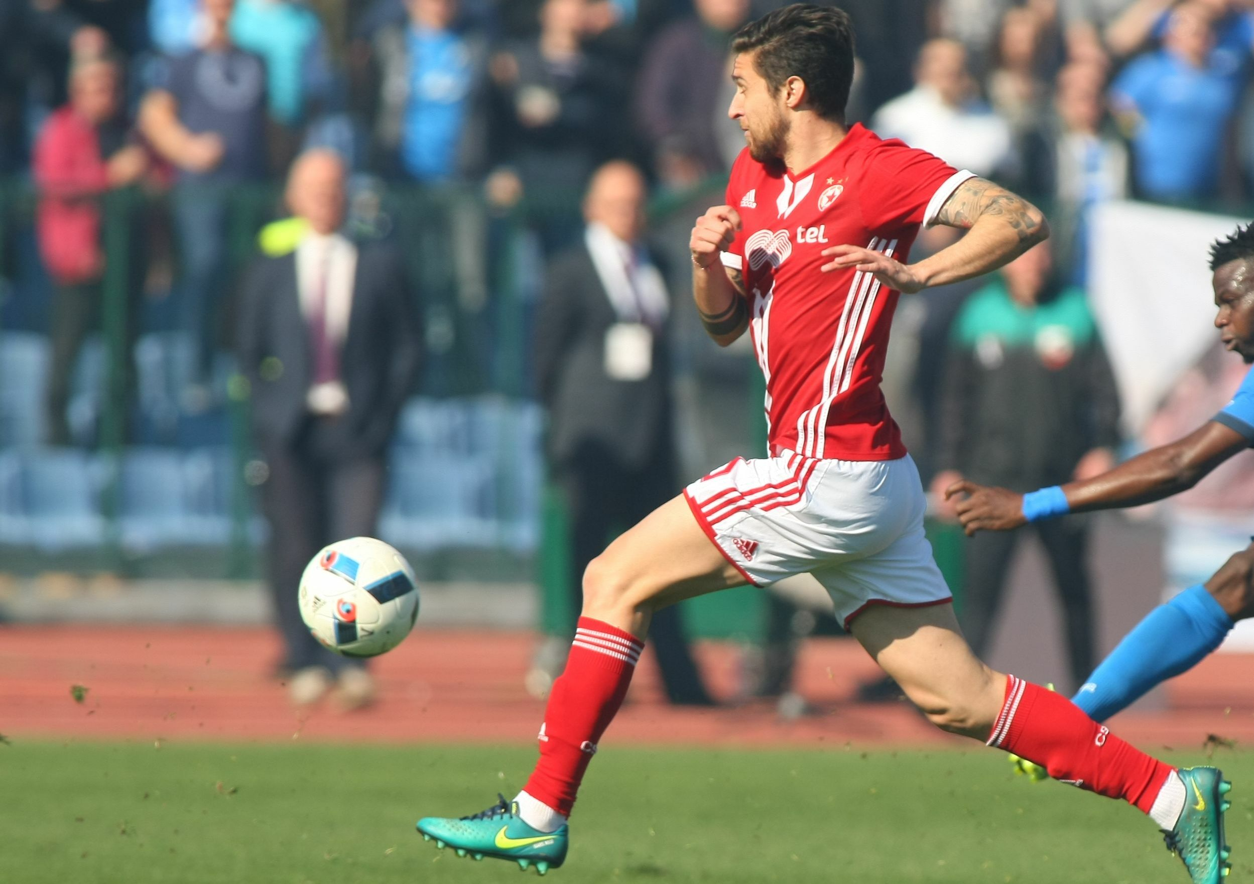 Ruben Pinto - soccer player from Portugal